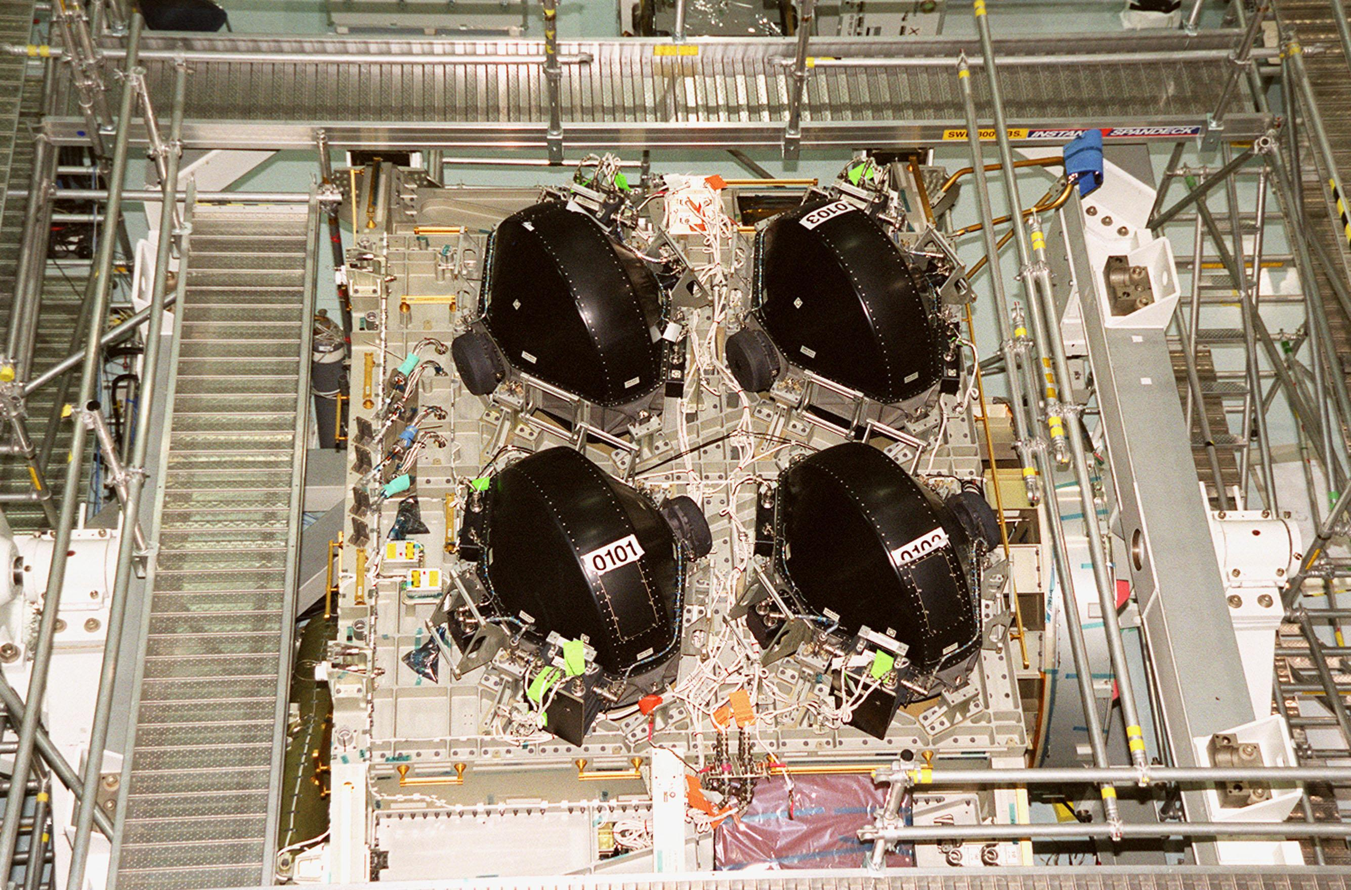 A rack of four gyroscopes is part of the hardware and equipment filling the Space Station Processing Facility (SSPF). Other elements of the International Space Station also housed in the SSPF are the U.S. Lab, Destiny; the Multi-Purpose Logistics Modules Raffaello and Leonardo; and the Pressurized Mating Adapter-3 (PMA-3). The PMA-3 is the first element scheduled to be launched to the space Station, on STS-92. Next is Destiny, on STS-98, followed by the MPLMs on STS-102 and STS-100. No dates have been determined yet for these missions.